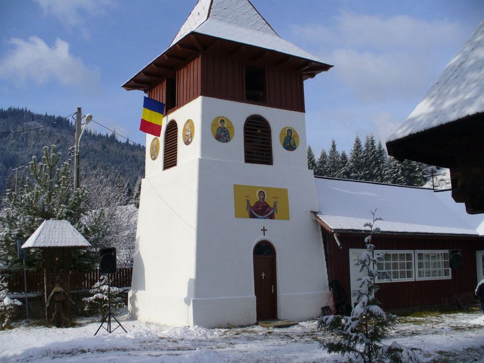 Biserica de lemn din Broşteni